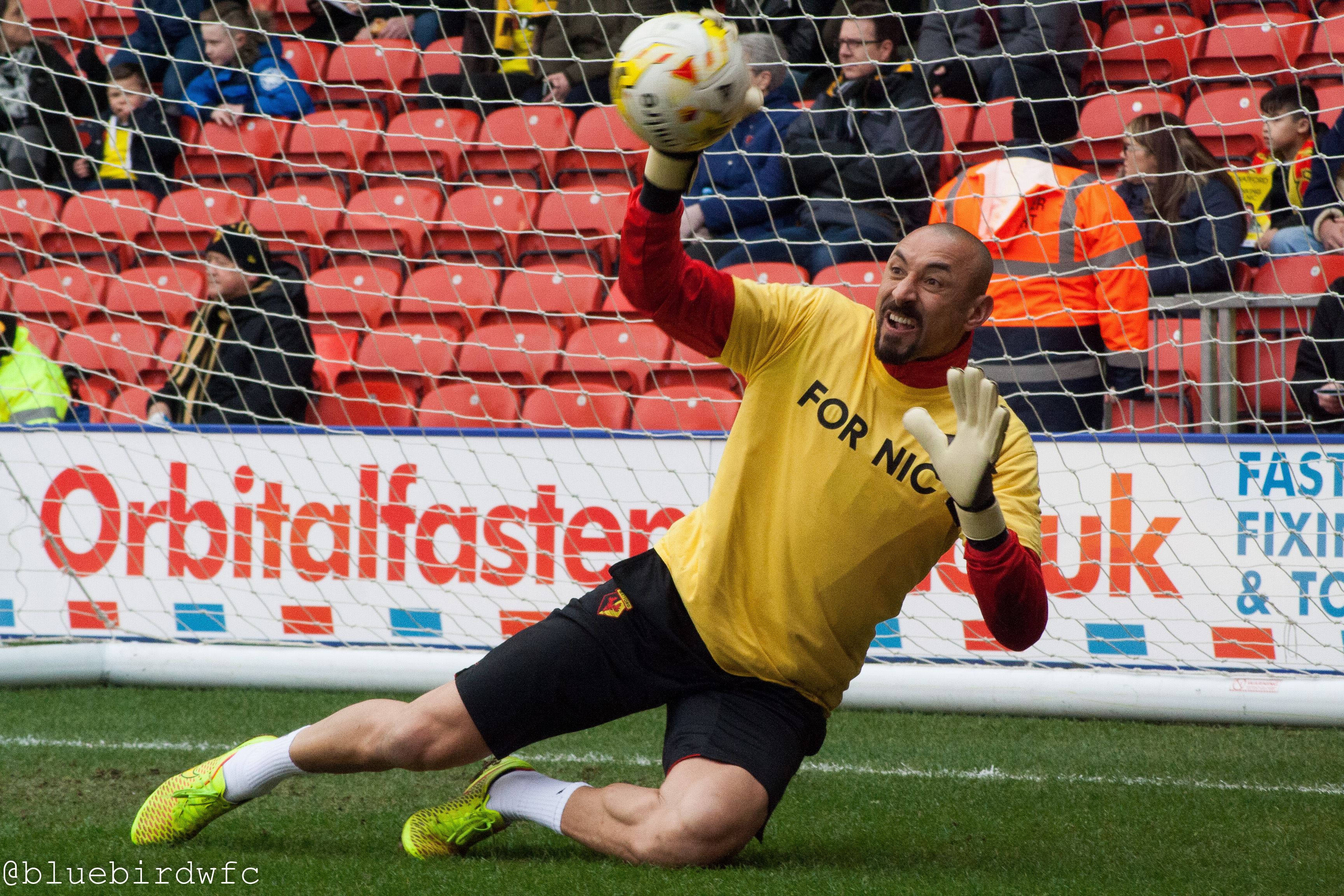 150314 Watford v Reading-92